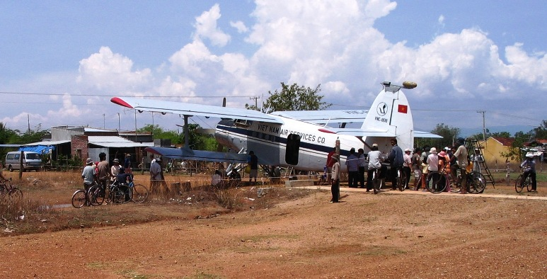 Antonov An-2 aircraft of Vietnam Air Services Company (VASCO) in service of geophysical survey in Vietnam, 2005. The magnetometer sensor mounted at the vertical wing.